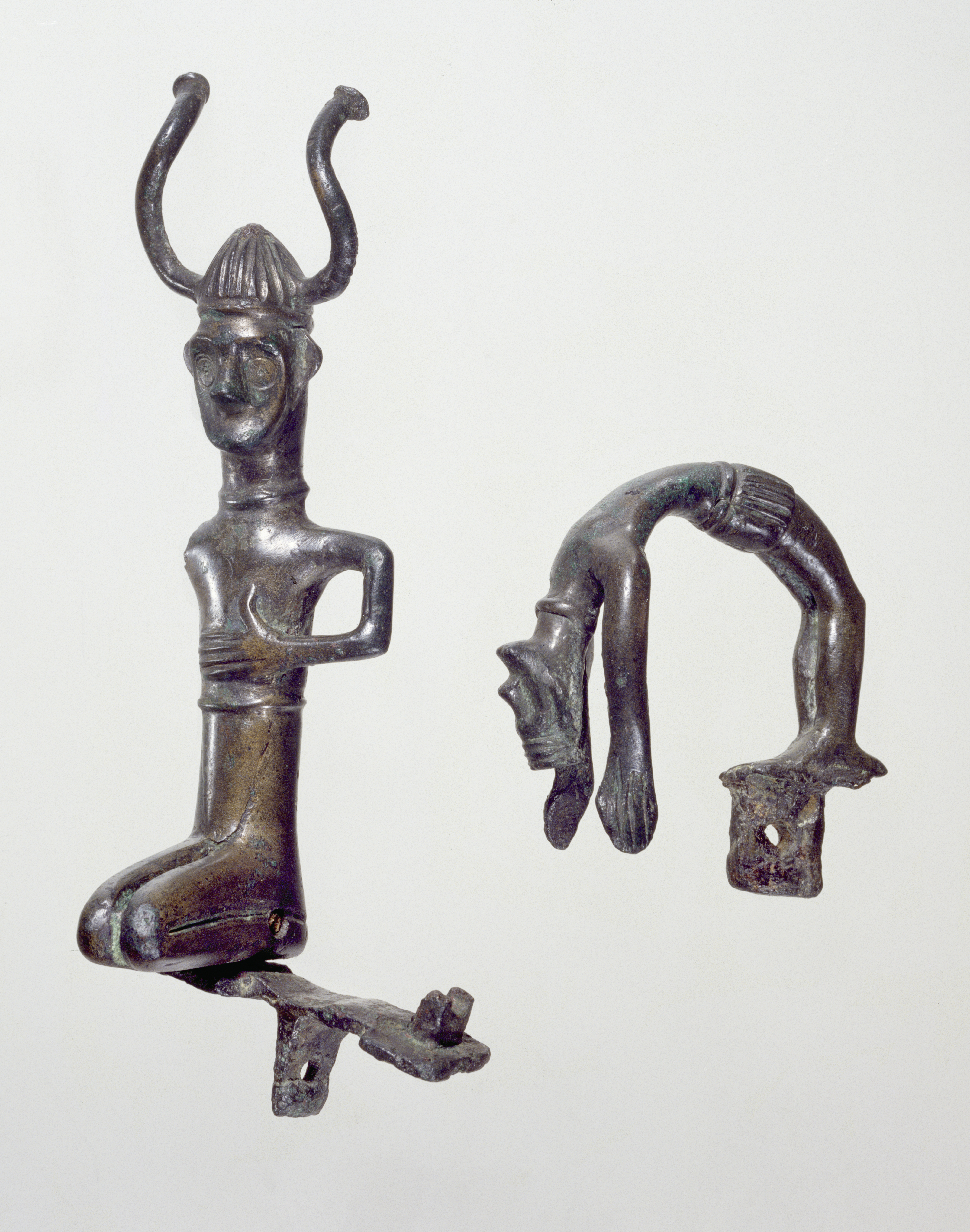 Bronze age statuettes from Grevensvænge